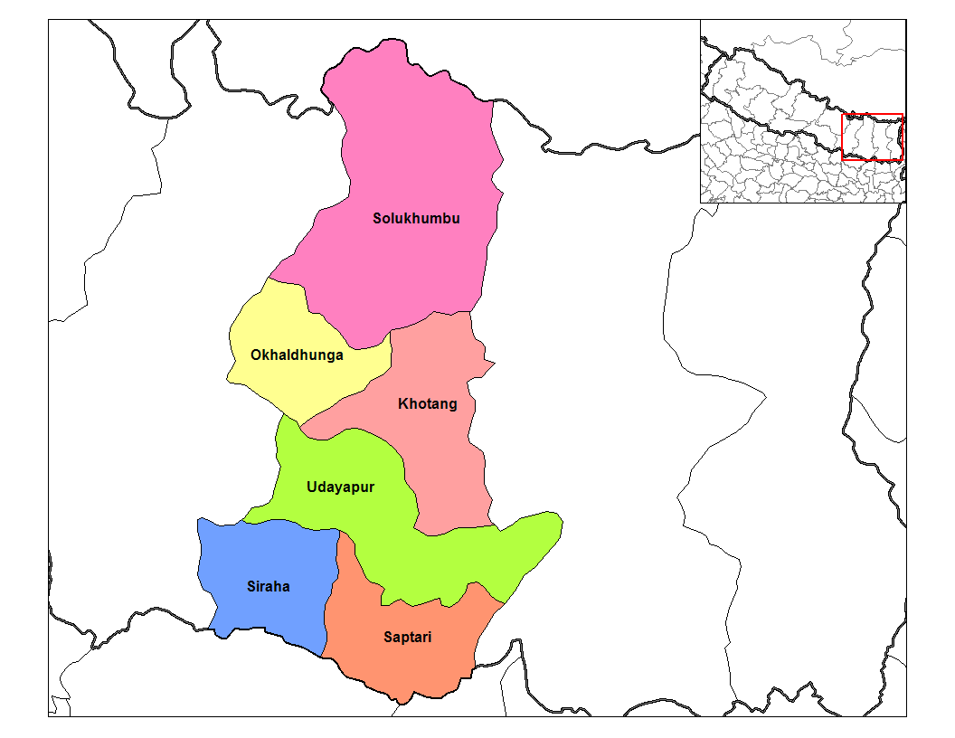 Map of the districts of Sagarmatha Zone (wp-EN) in Nepal. Created by Rarelibra 19:35, 18 September 2006 (UTC) for public domain use, using MapInfo Professional v8.5 and various mapping resources.